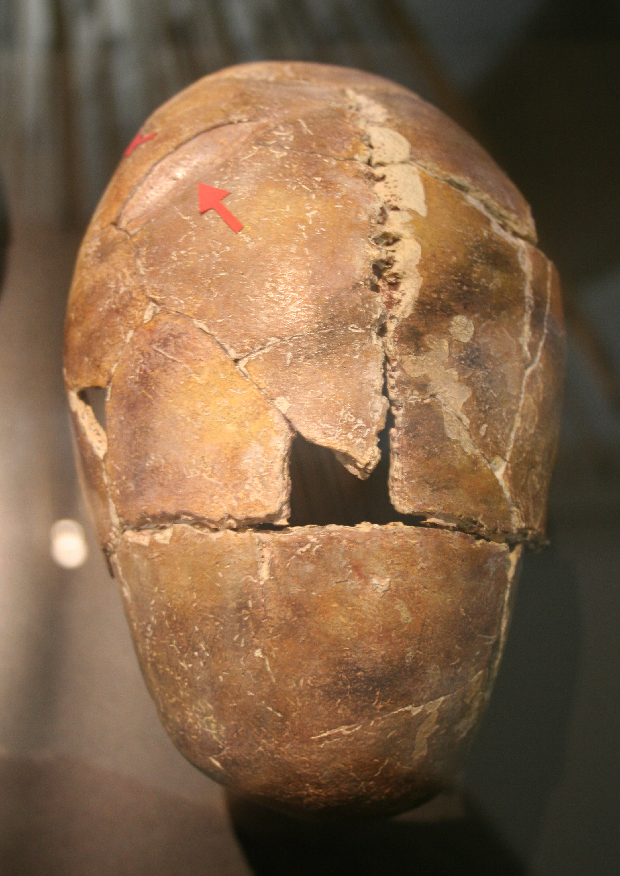 Skull of a 20 to 30 year old man, killed in the Talheim massacre, ca. 5100 BC. State museum Württemberg, Stuttgart